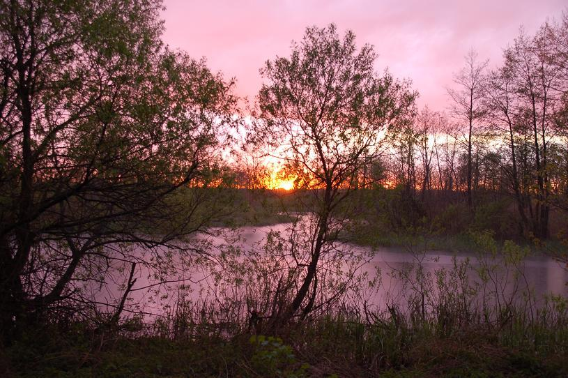 The river Lwa - before Carici elongatae-Alnetum forrest.